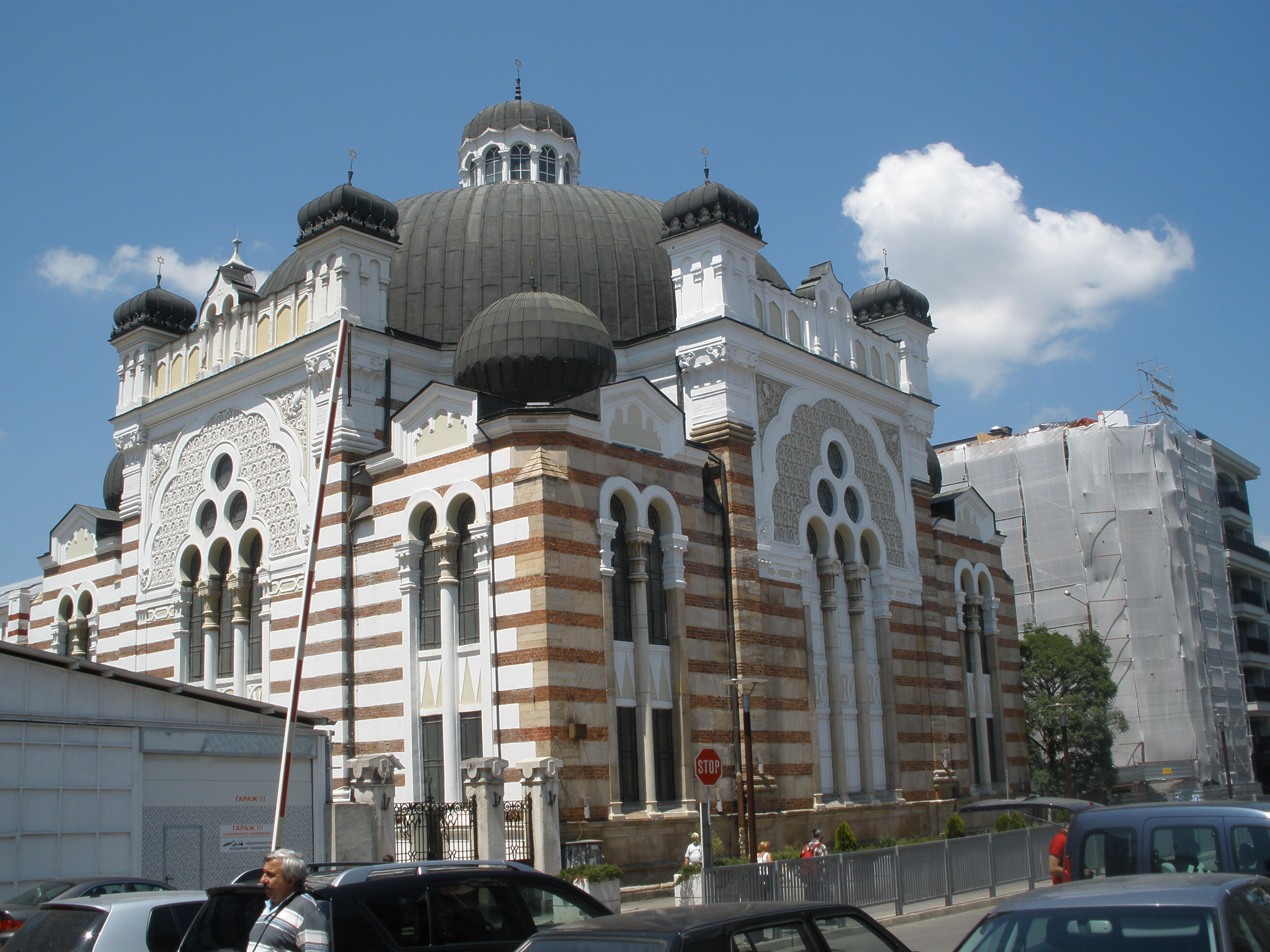 The Synagogue in Sofia. Credit: Courtesy of Yossi Nevo .